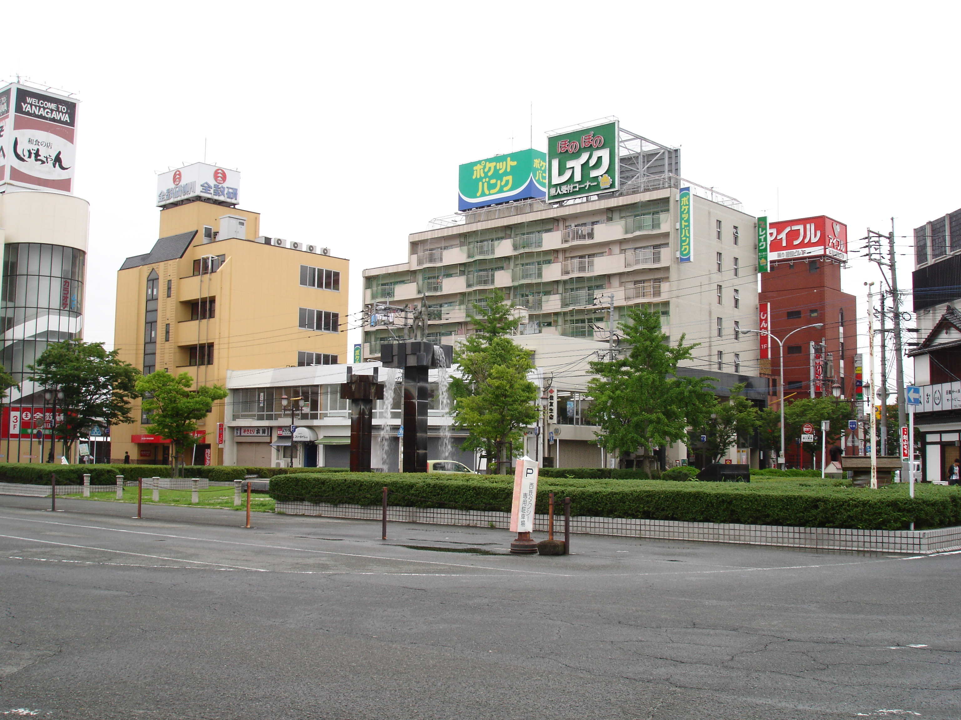 A view of Yanagawa city, taken from Yanagawa station.